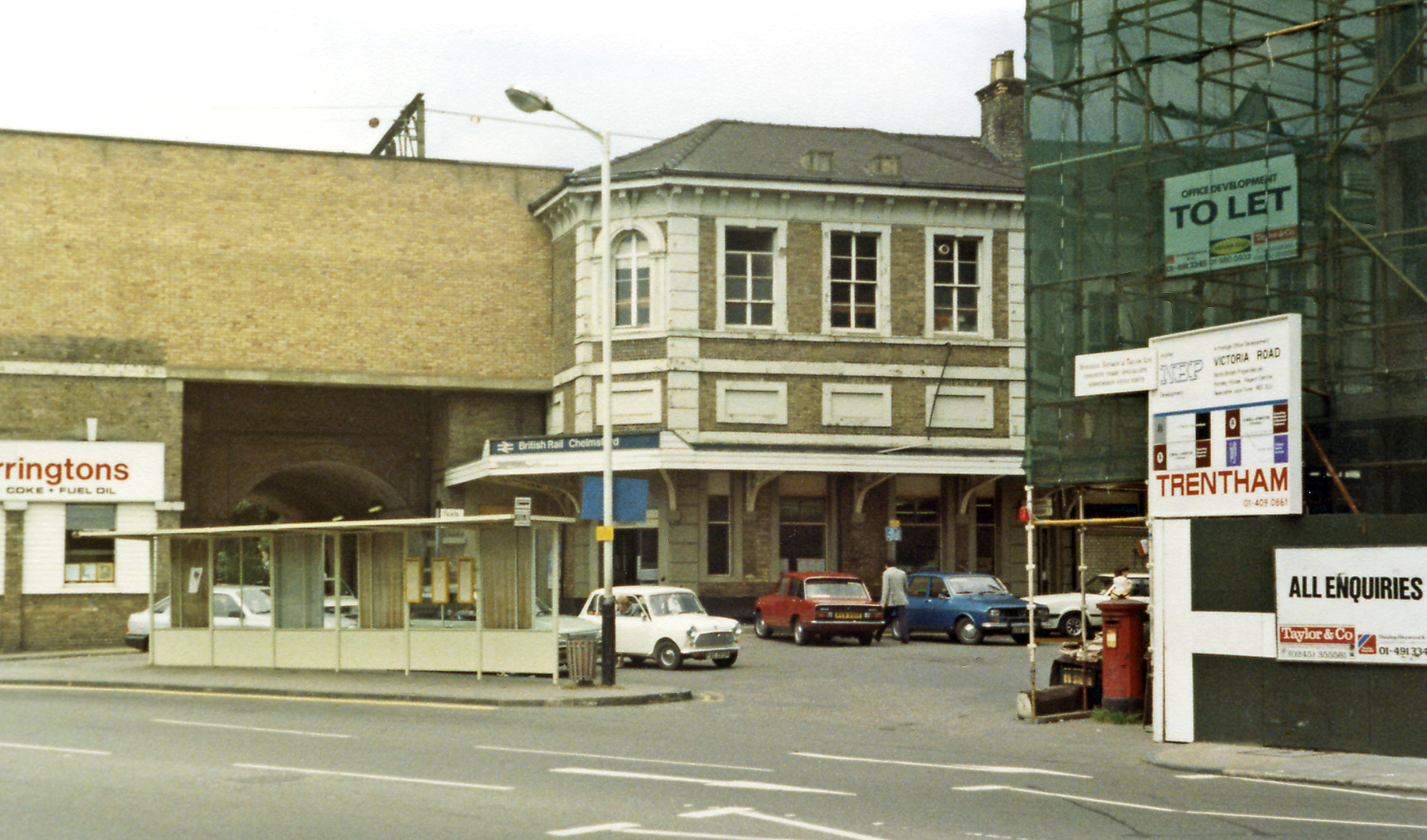 Chelmsford station entrance, 1984. View NE, Up side of London - Colchester etc. main line.